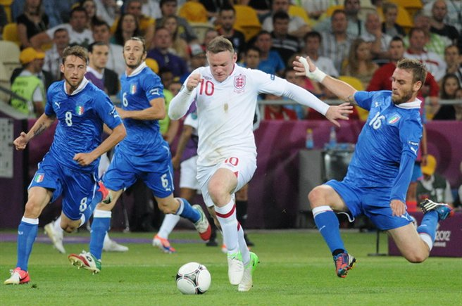 Daniele De Rossi tackles Wayne Rooney at Euro 2012 match England-Italy